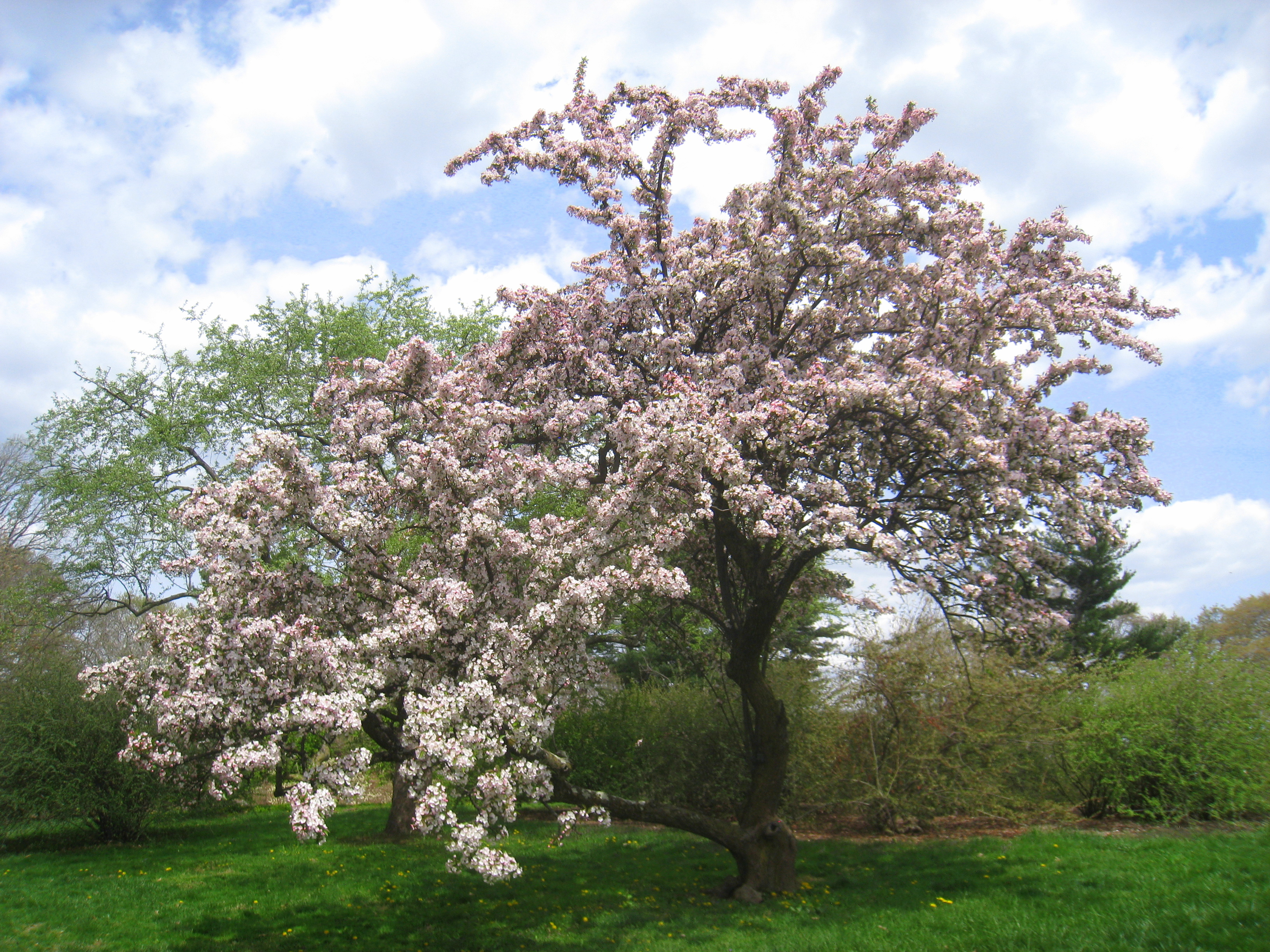 Malus hupehensis, Arnold Arboretum, Jamaica Plain, Boston, Massachusetts, USA.